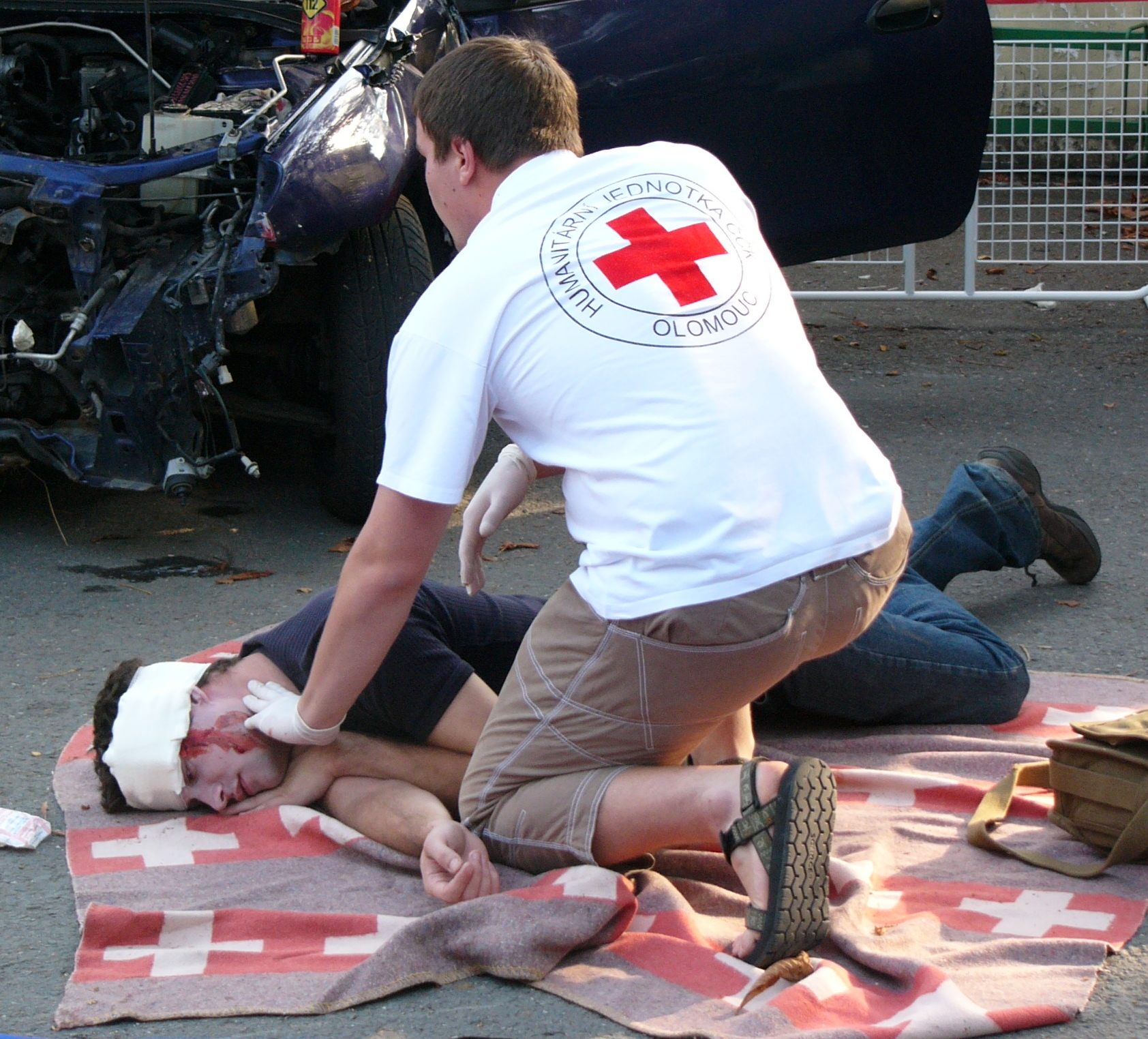 Checking carotidian pulse in recoversy position (simulated car accident)